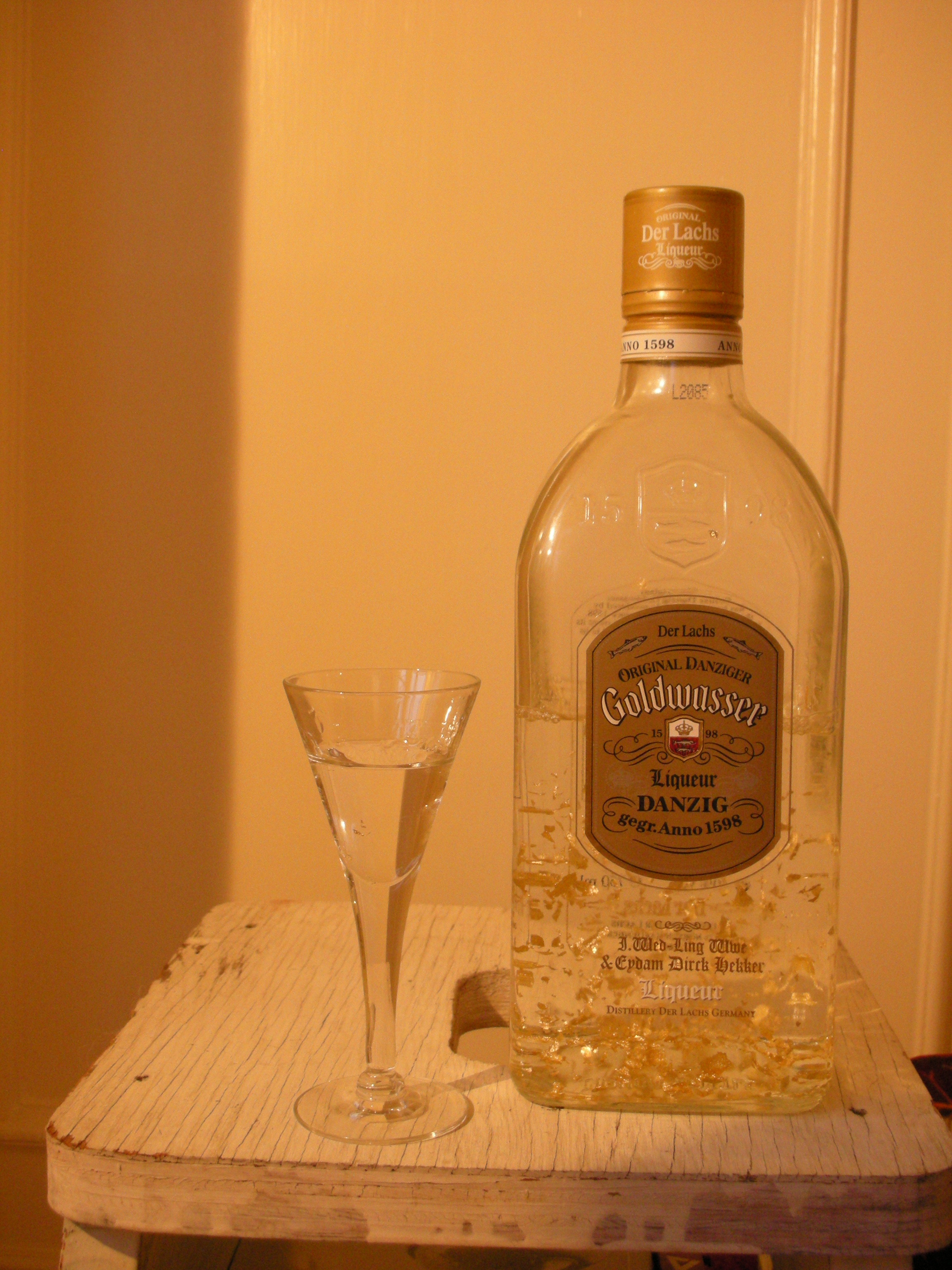 Bottle of Der Lachs Goldwasser Liquer. (sorry, low light)